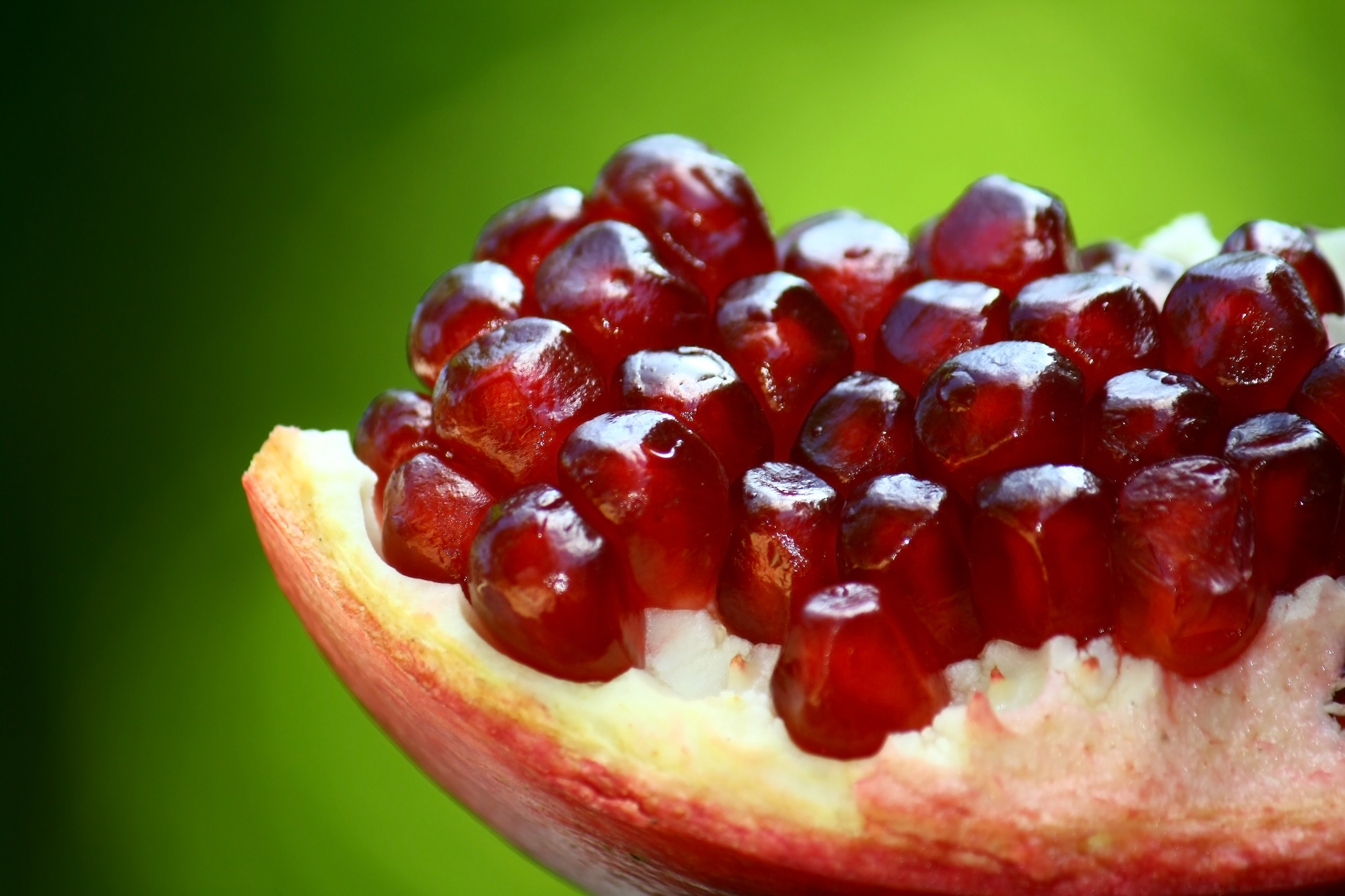 Punica granatum seeds can be seen thru an opened pomegranate